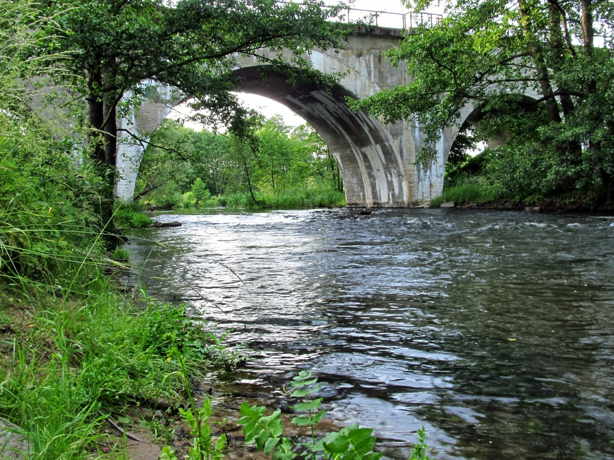 Bridge over Wda river (Railway line Tczew-Chojnice)